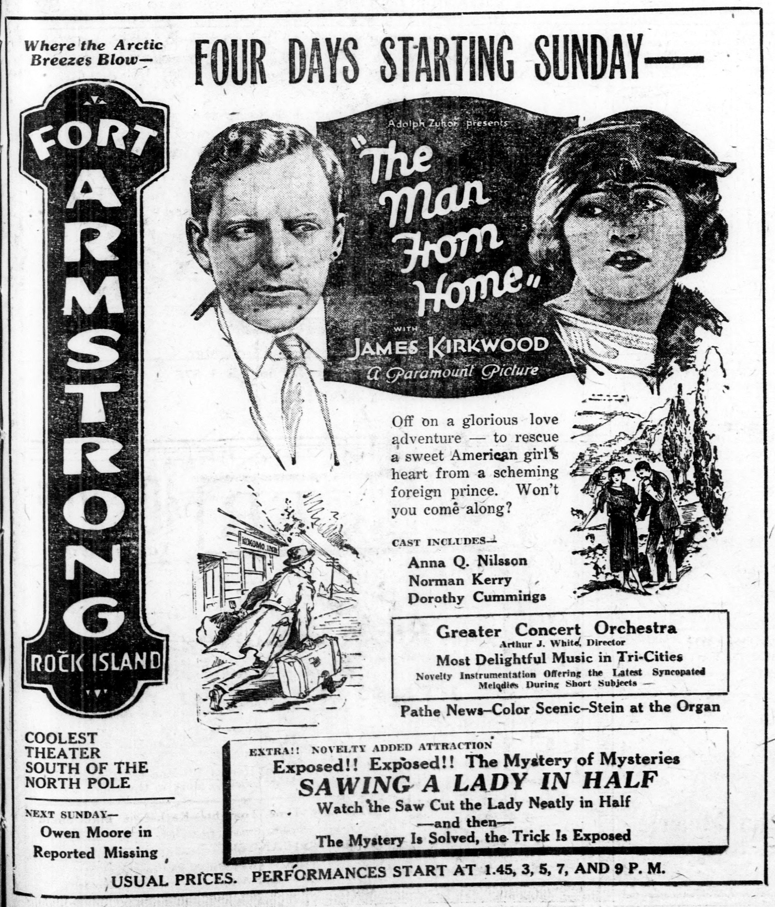 The Man From Home is a 1922 film directed by George Fitzmaurice. This is a newspaper advert for the film.